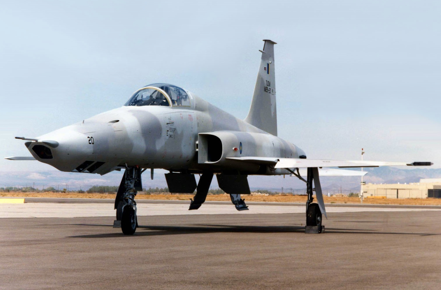 Northrop RF-5E of the Malaysian Air Force